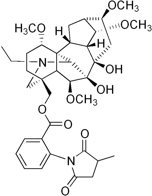 chemical structure of methyllycaconitine